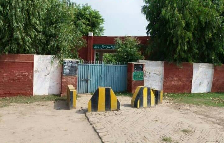 I also Uploaded this Photo on Botala Facebook Page & on website